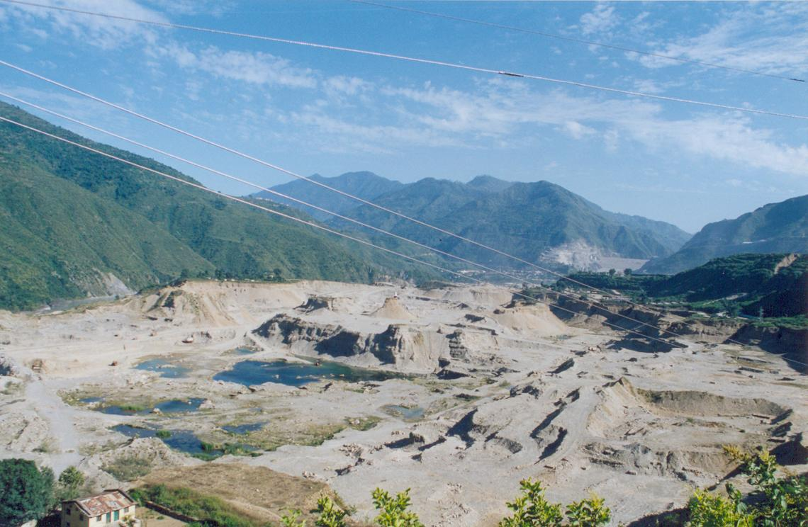 Tehri dam site on the rivers Bhagirathi and Bhilangana.